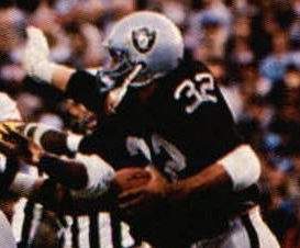 Los Angeles Raiders' running back Marcus Allen rushing the ball against the Washington Redskins in Super Bowl XVIII.